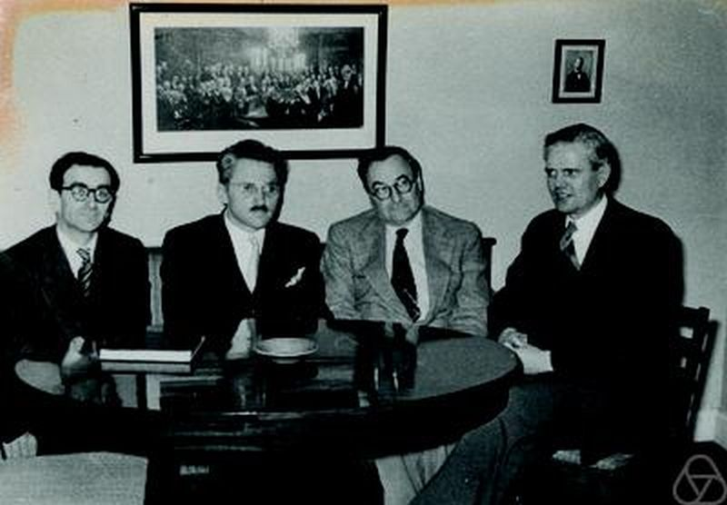 Werner Fenchel (left), Alexander D. Alexandrov, Herbert Busemann, Børge Jessen, 1954